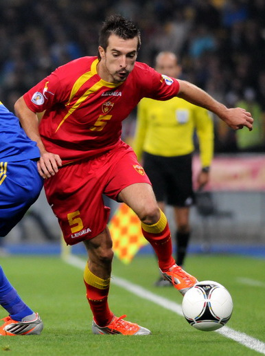 Montenegrin football player Vladimir Volkov during 2014 World Cup qualifier against Ukraine